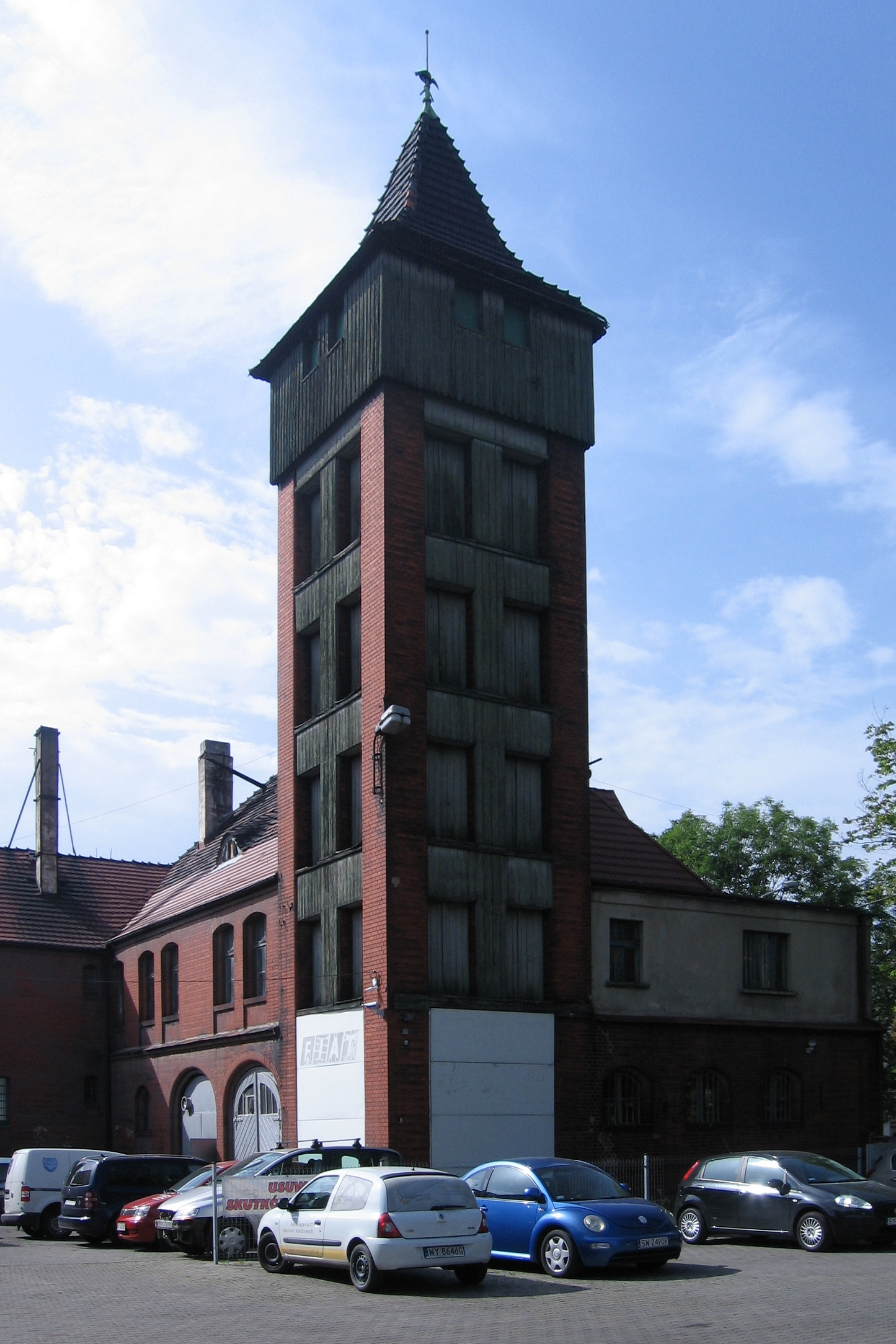 The firehouse built in 1911, located in Łagiewniki, Bytom, Poland, the cultural heritage monument.